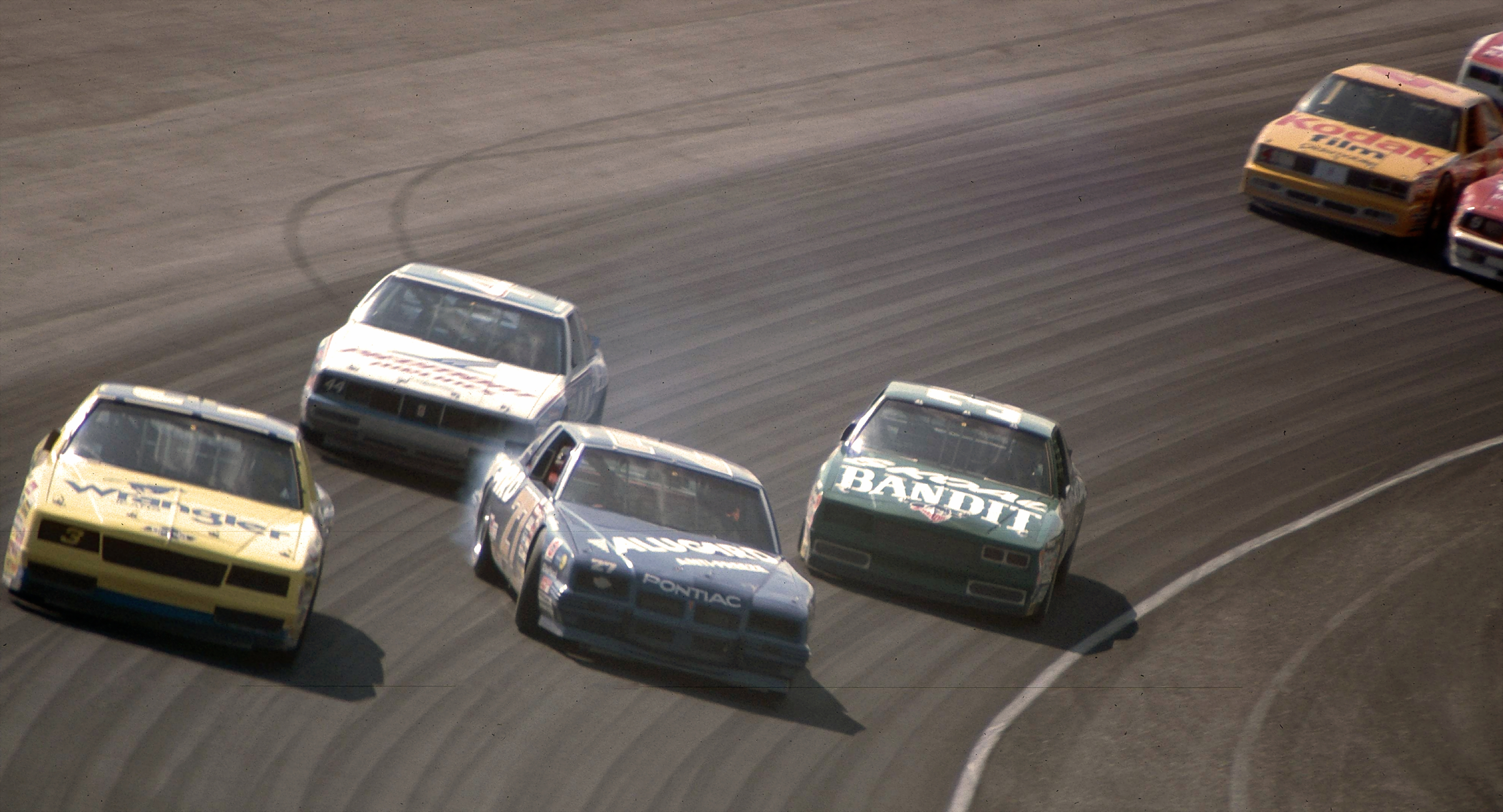 Dale Earnhardt Sr. Rusty Wallace sideways Dover 1986